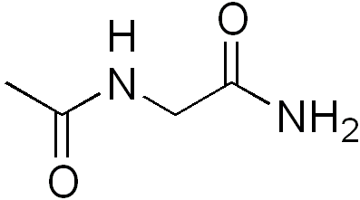 Chemical structure of N-acetylglycinamide